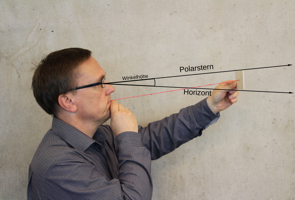 Usage of the Kamal as seen from the side. Labels are in German.